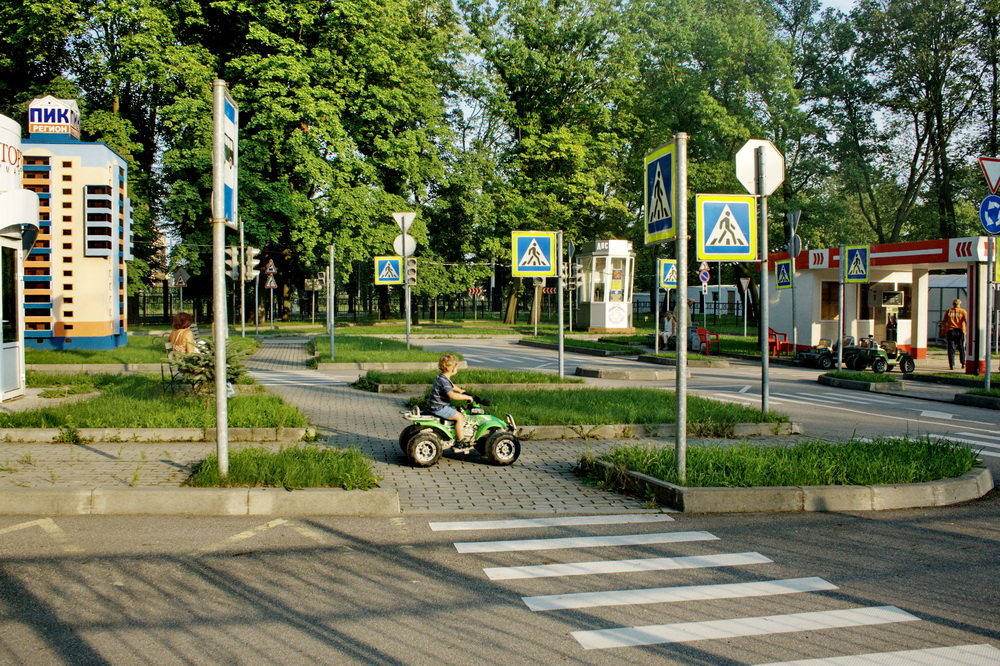 Children's car town in the park